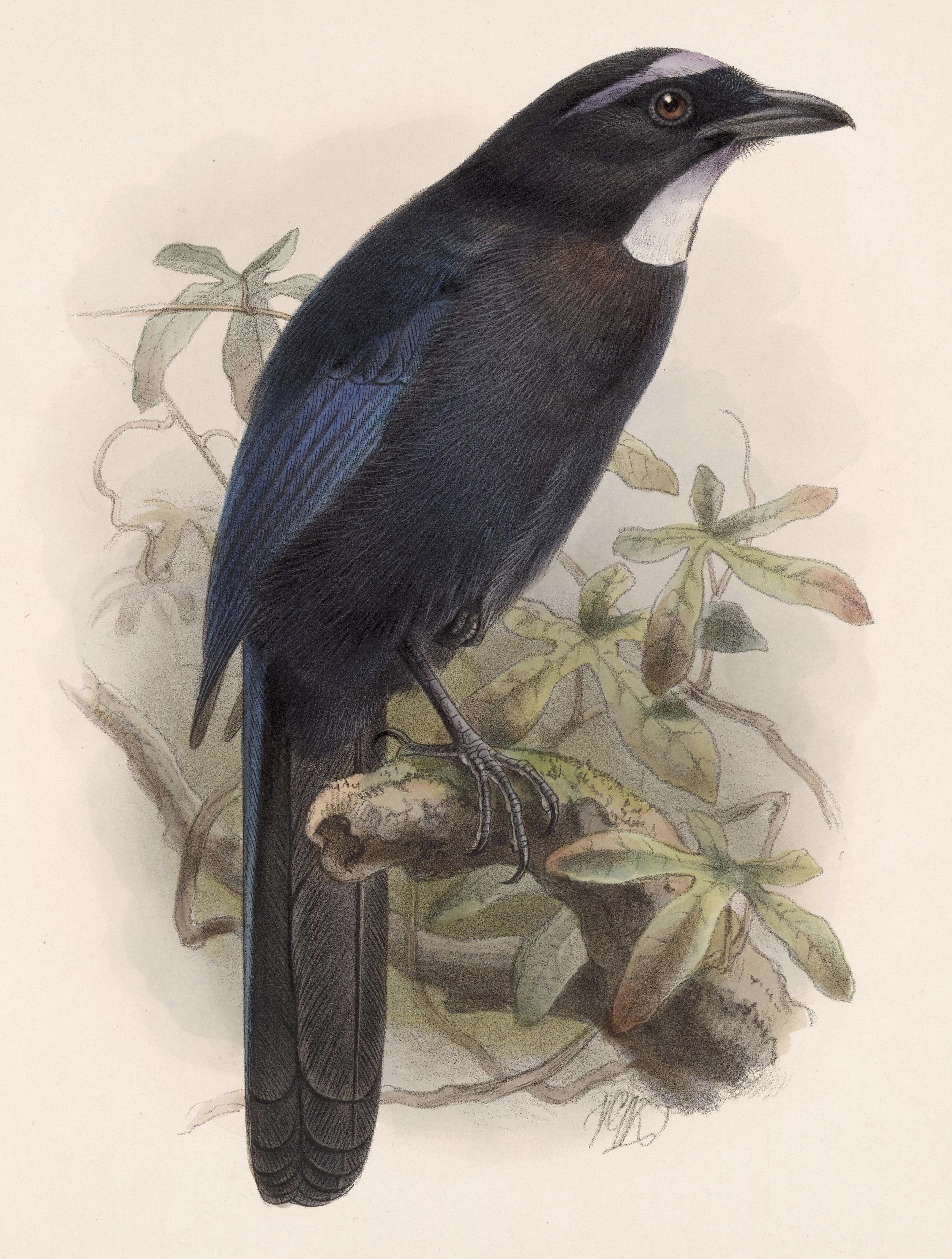 « Cyanocitta argenticula » = Cyanolyca argentigula (Silvery-throated Jay)